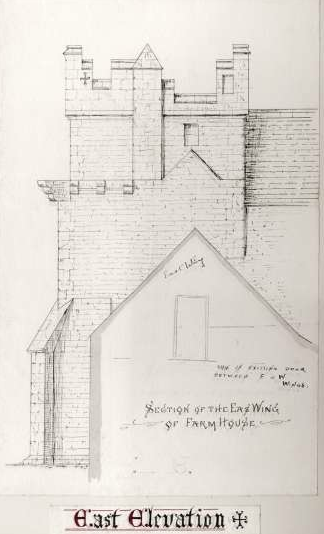 Aslackby Preceptory Tower at Temple Farm, drawn in 1892 before it collapsed